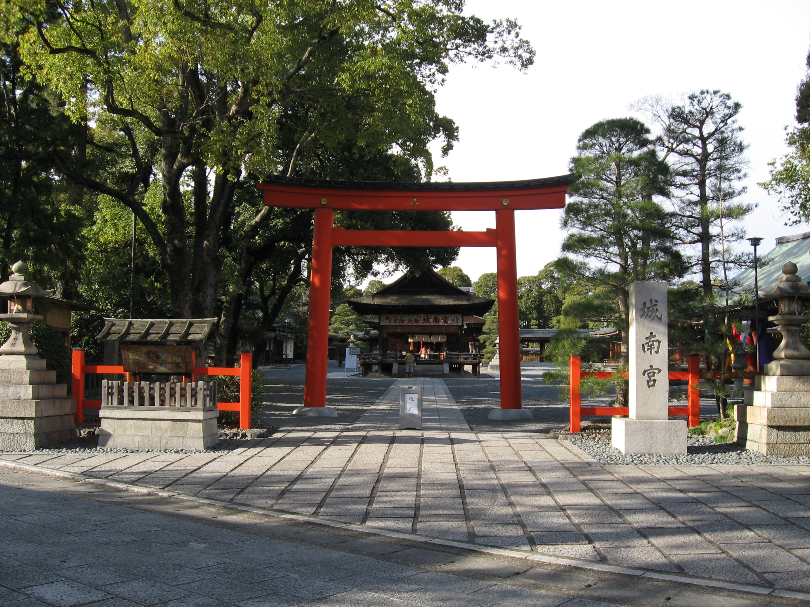 Jonangu shrine in Kyoto city, Japan